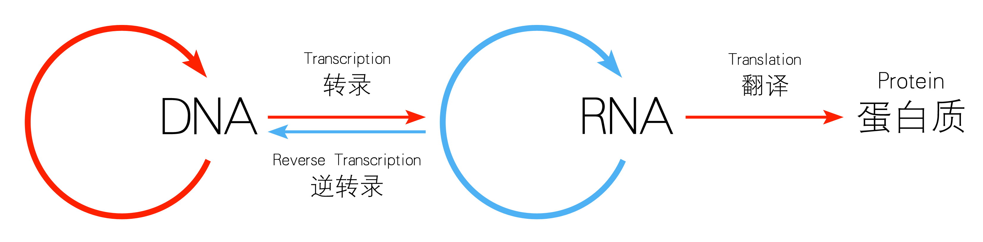 Central dogma of molecular biology(Chinese: 中心法则)